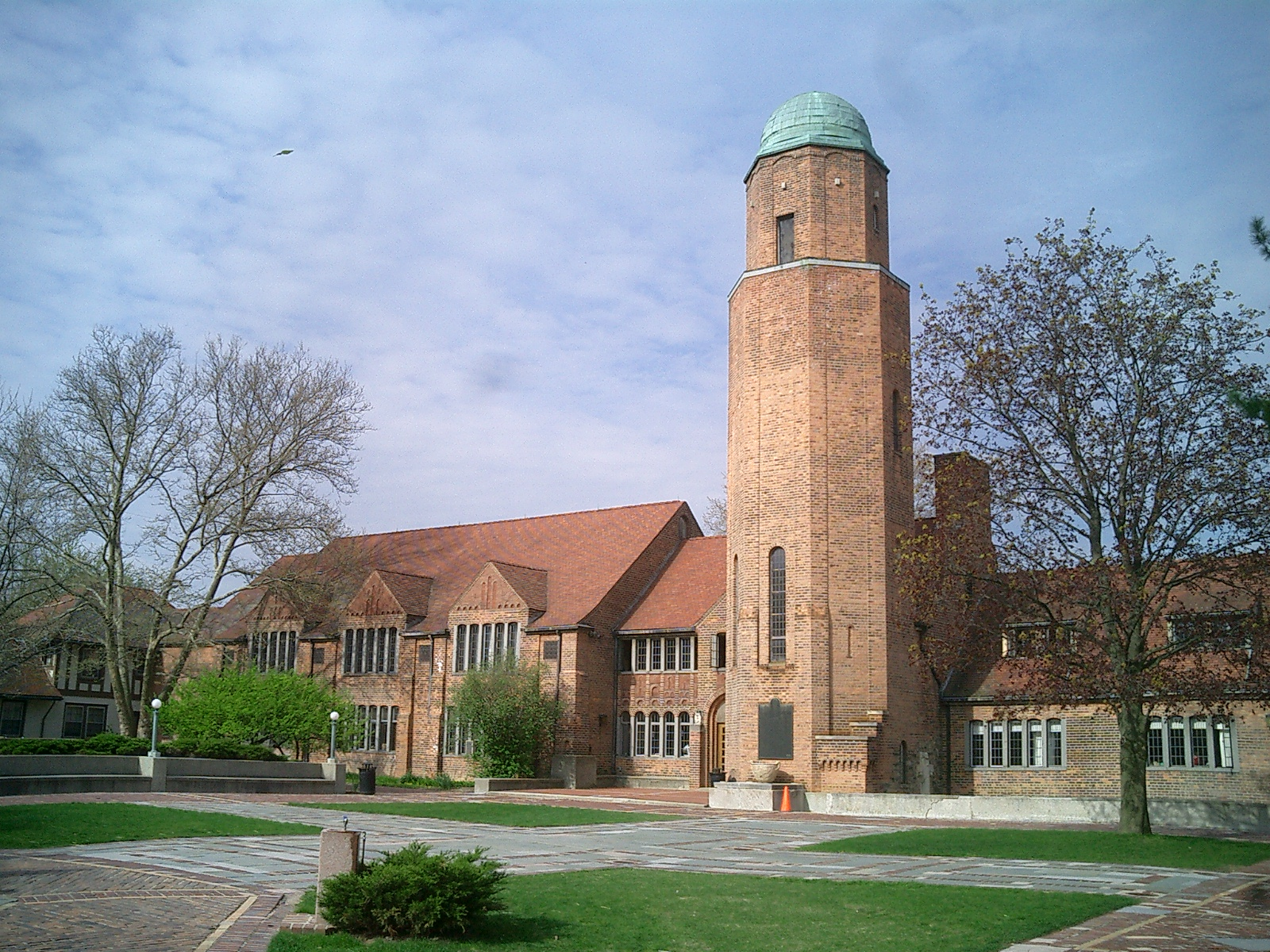 Cranbrook Tower and Quadrangle, Cranbrook Kingswood School, Bloomfield Hills, Michigan, United States.